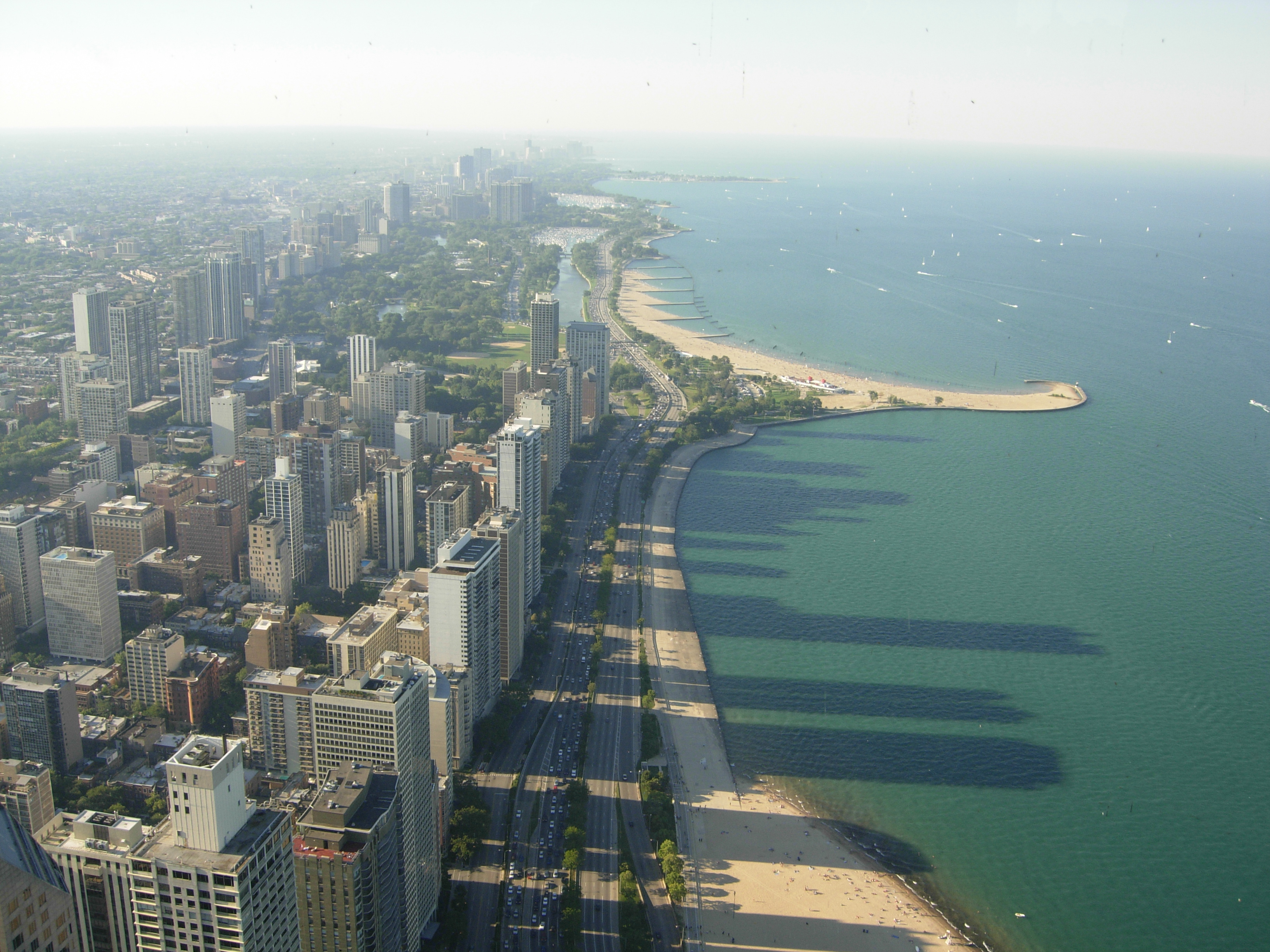 North Avenue Beach from Hancock Observatory, Chicago.